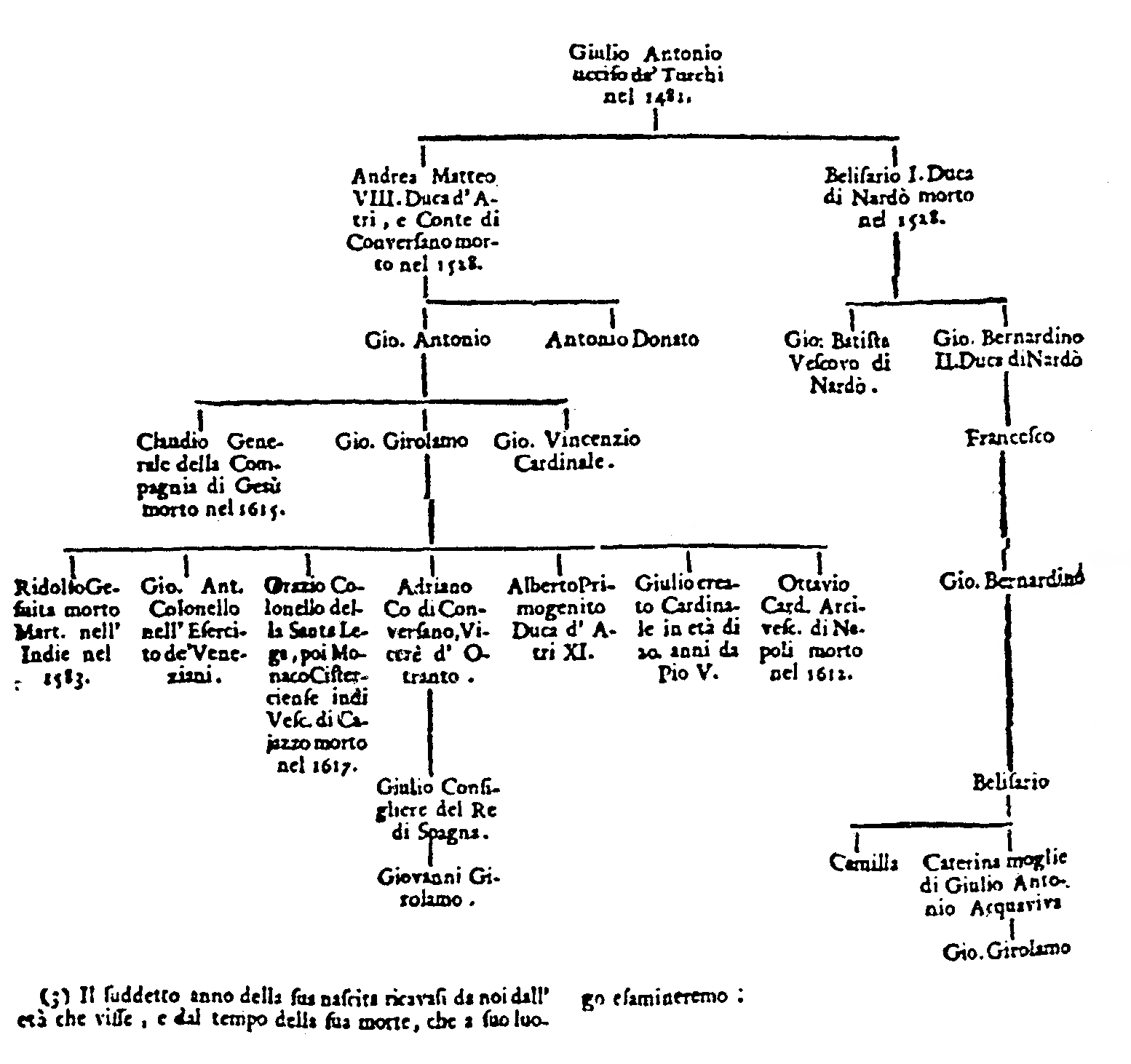 Family tree of Acquaviva. Source: Mazzuchelli, Giammaria: Gli scrittori d'Italia: cio, notizie storiche, e critiche intorno alle vite, e agli scritti dei letterati italiani / di Giammaria Mazzuchelli Bresciano. - Brescia: Bossini, 1753-1763. - 2 v. in 6. From WBIS